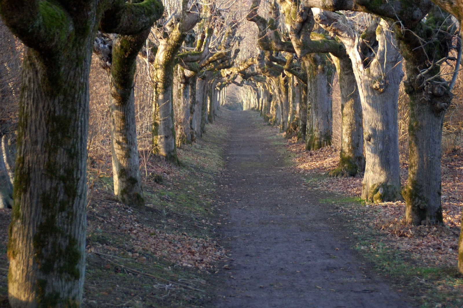 Tree allee at Warthausen Castle. I saw this magical covered walkway near a private castle in a small town in Southern Germany. I took the photo with my zoom lense from a public road... didn't want to get into trouble.